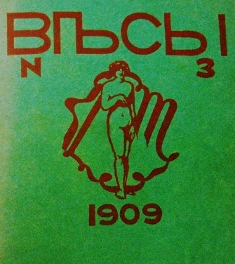 1909 cover of the magazine Vesy (Russian: «Весы»